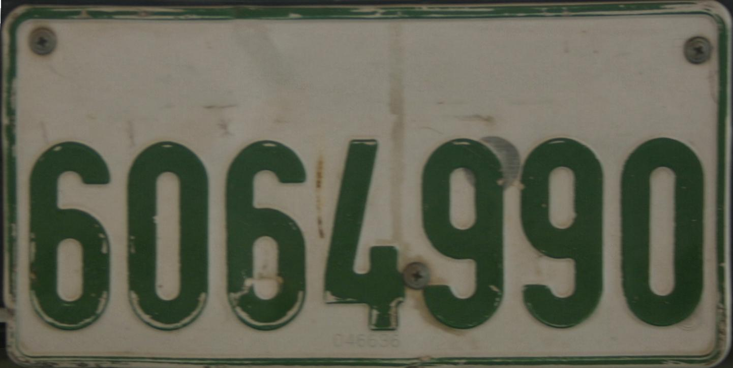 Palestinian license plate American size